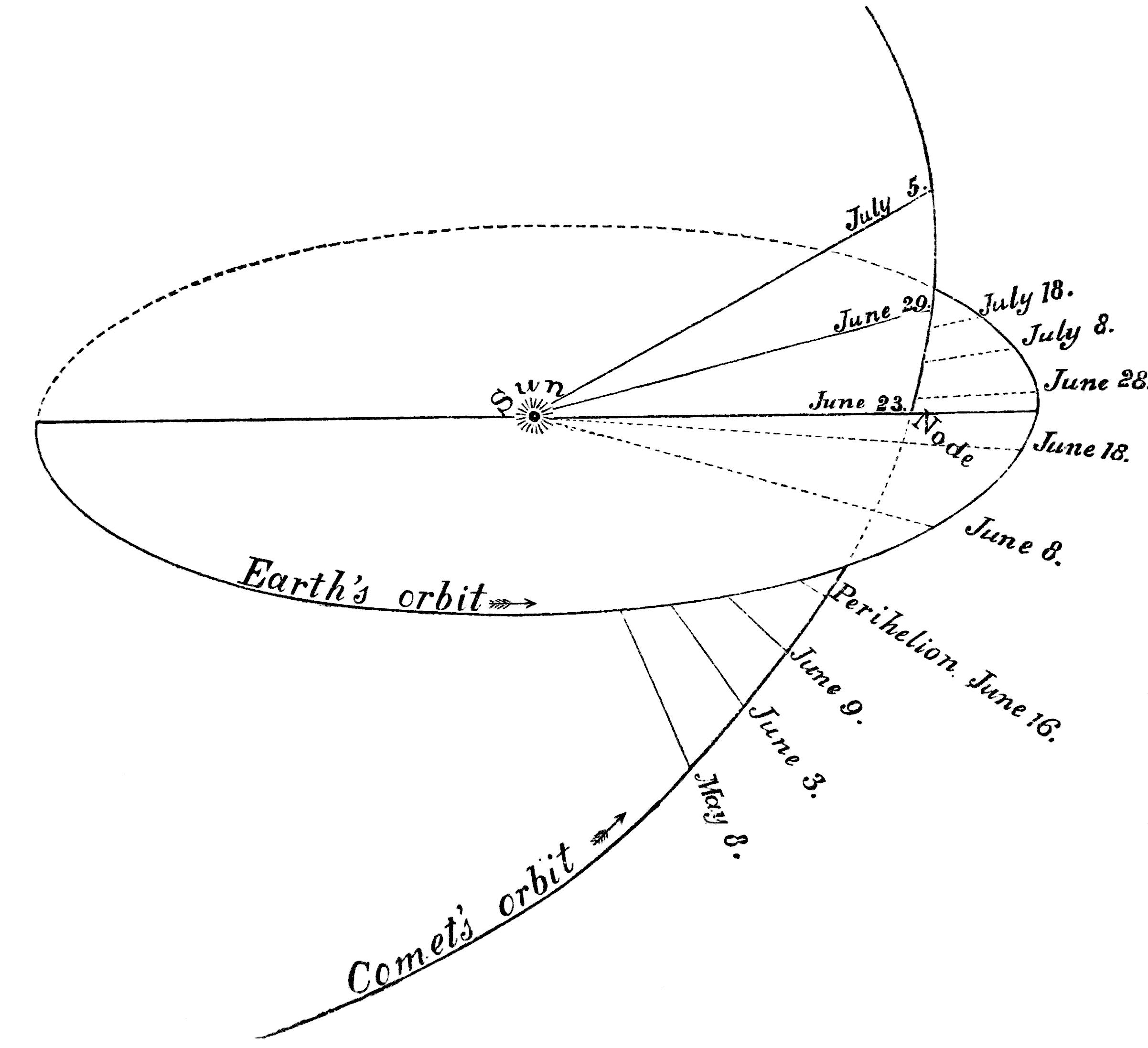 Comet orbit in relation to earth